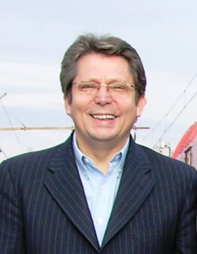 Werner Miedl